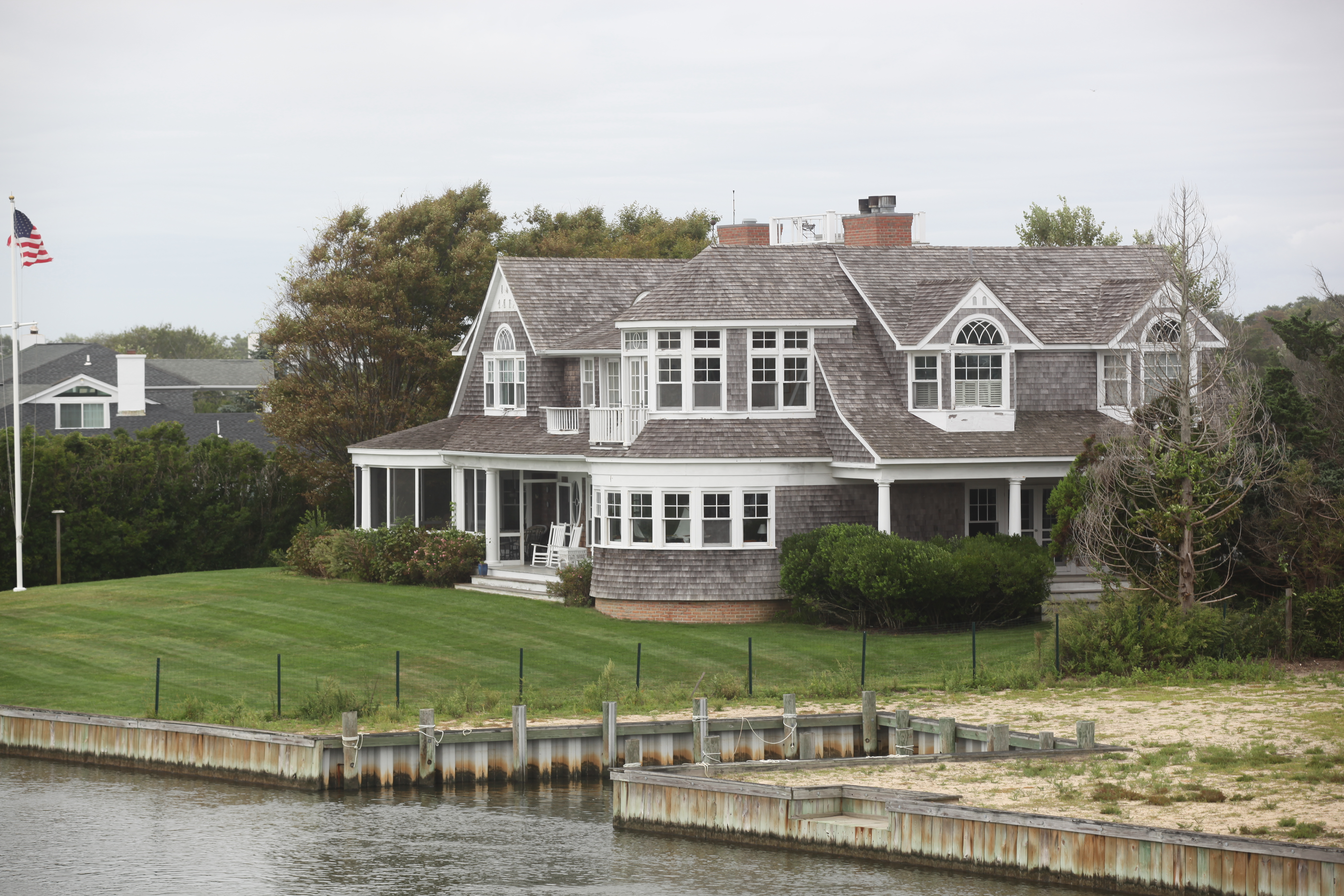 Quogue Historical District NRHP Quogue st, Jessup Ave